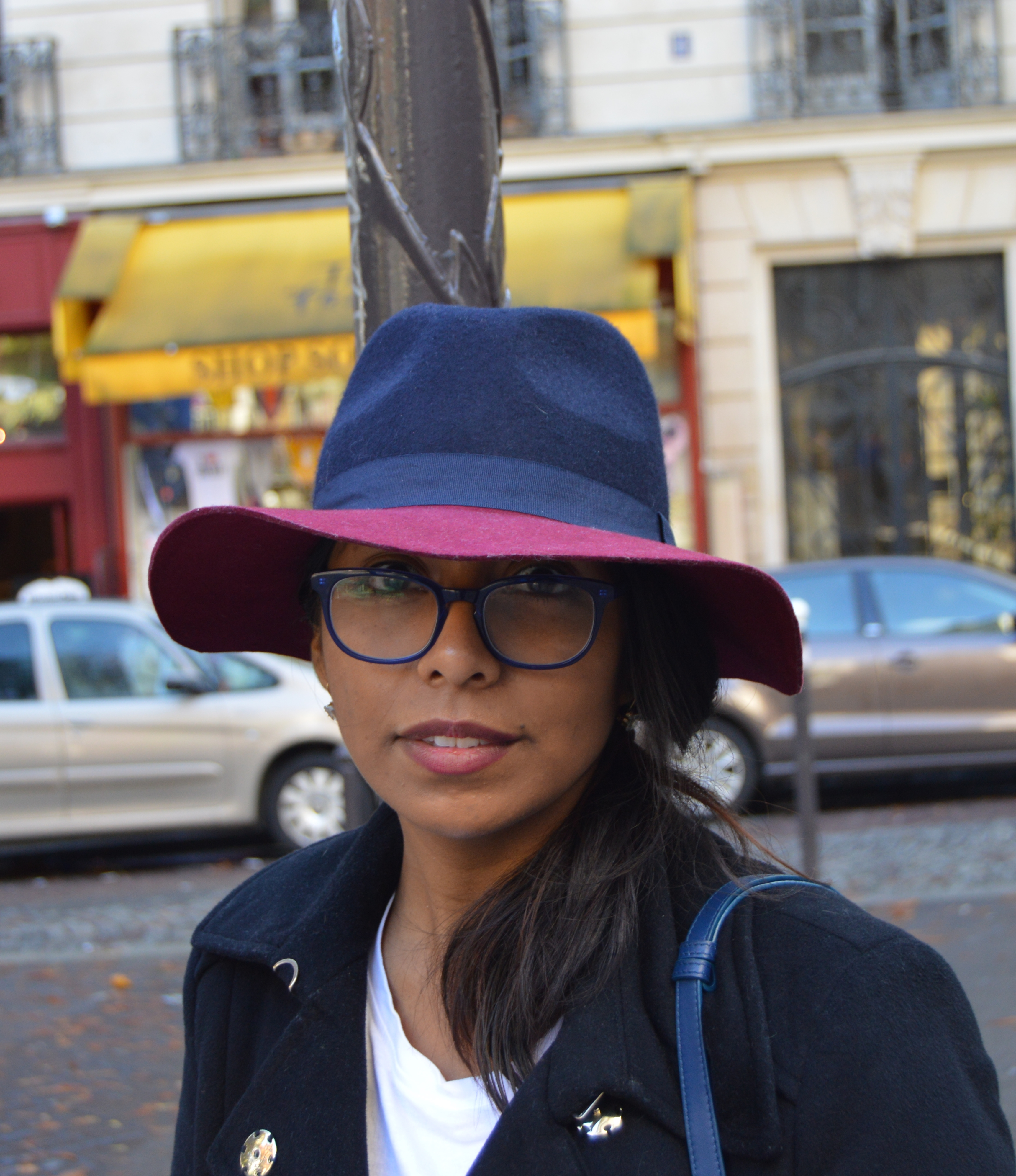 The Artist, Natalia Anciso, in Paris for Paris Fashion Week, 2015